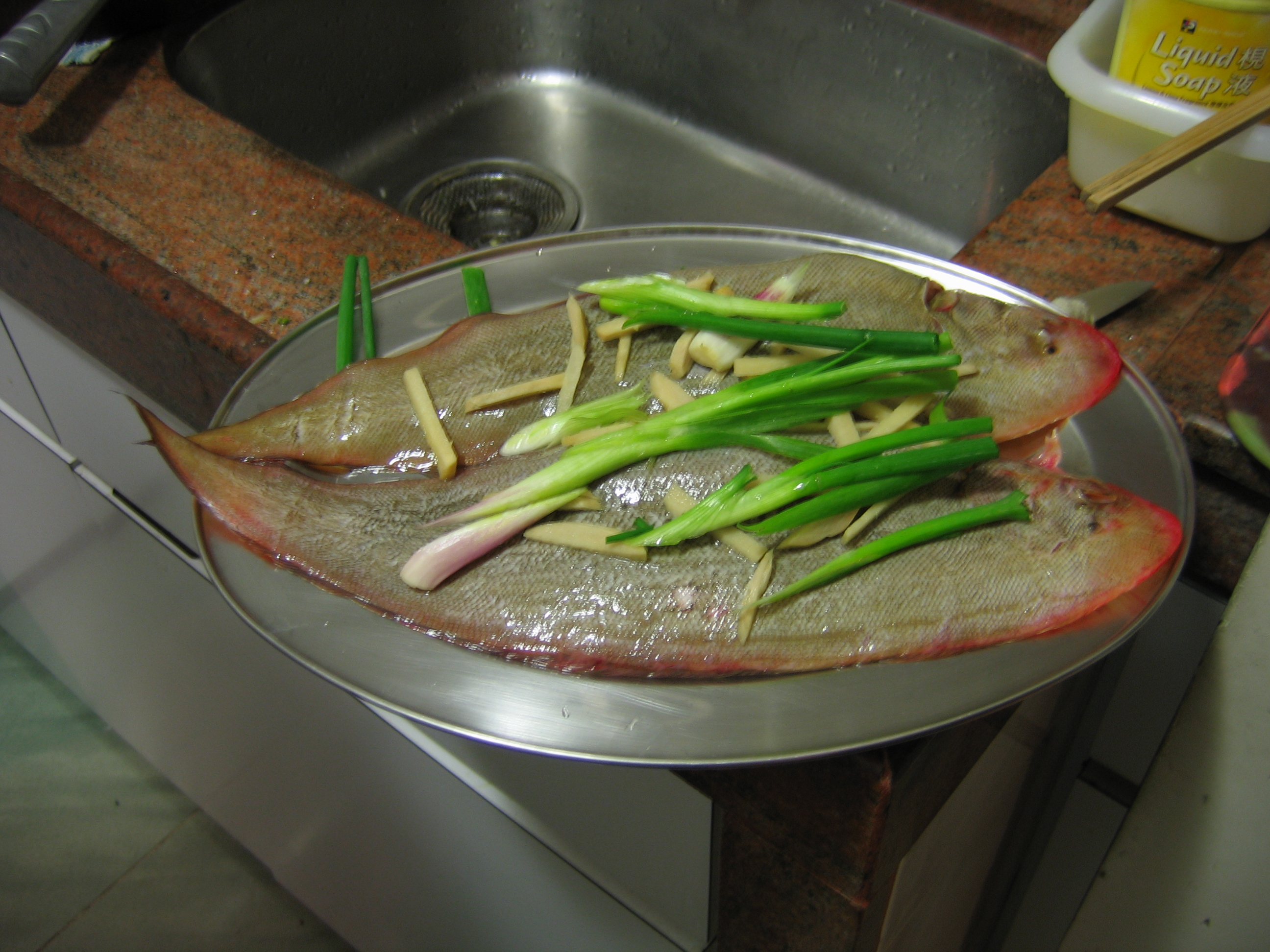 Steamed Flatfish with Scallion